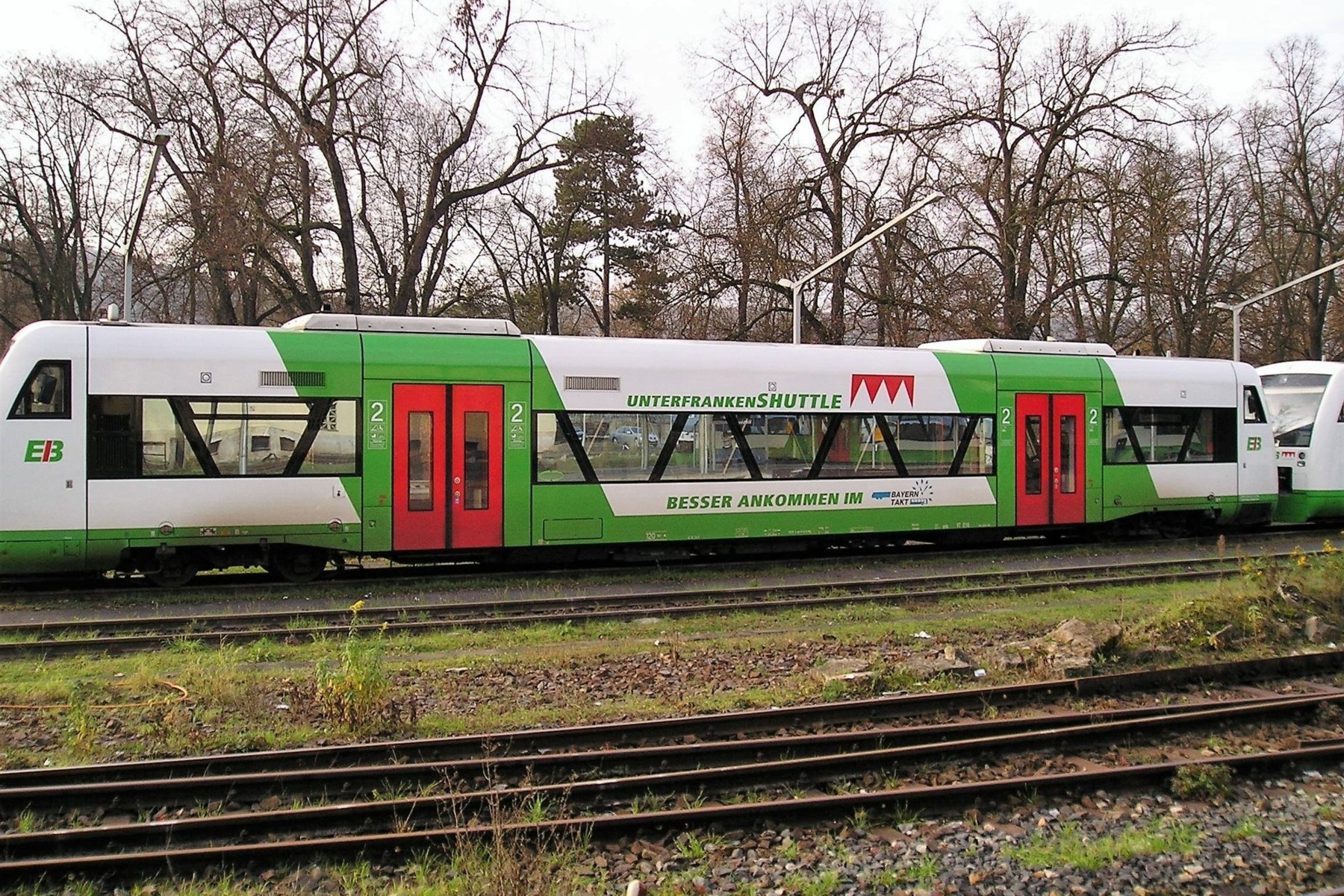 Train Unterfranken-Shuttle of the Relation Meiningen-Schweinfurt in City of Meiningen, Germany.